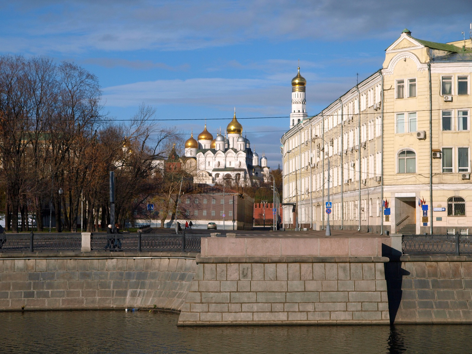 Bolotnaya Street, Moscow. It is, in fact, an embankment, distinct from Bolotnaya Embankment.